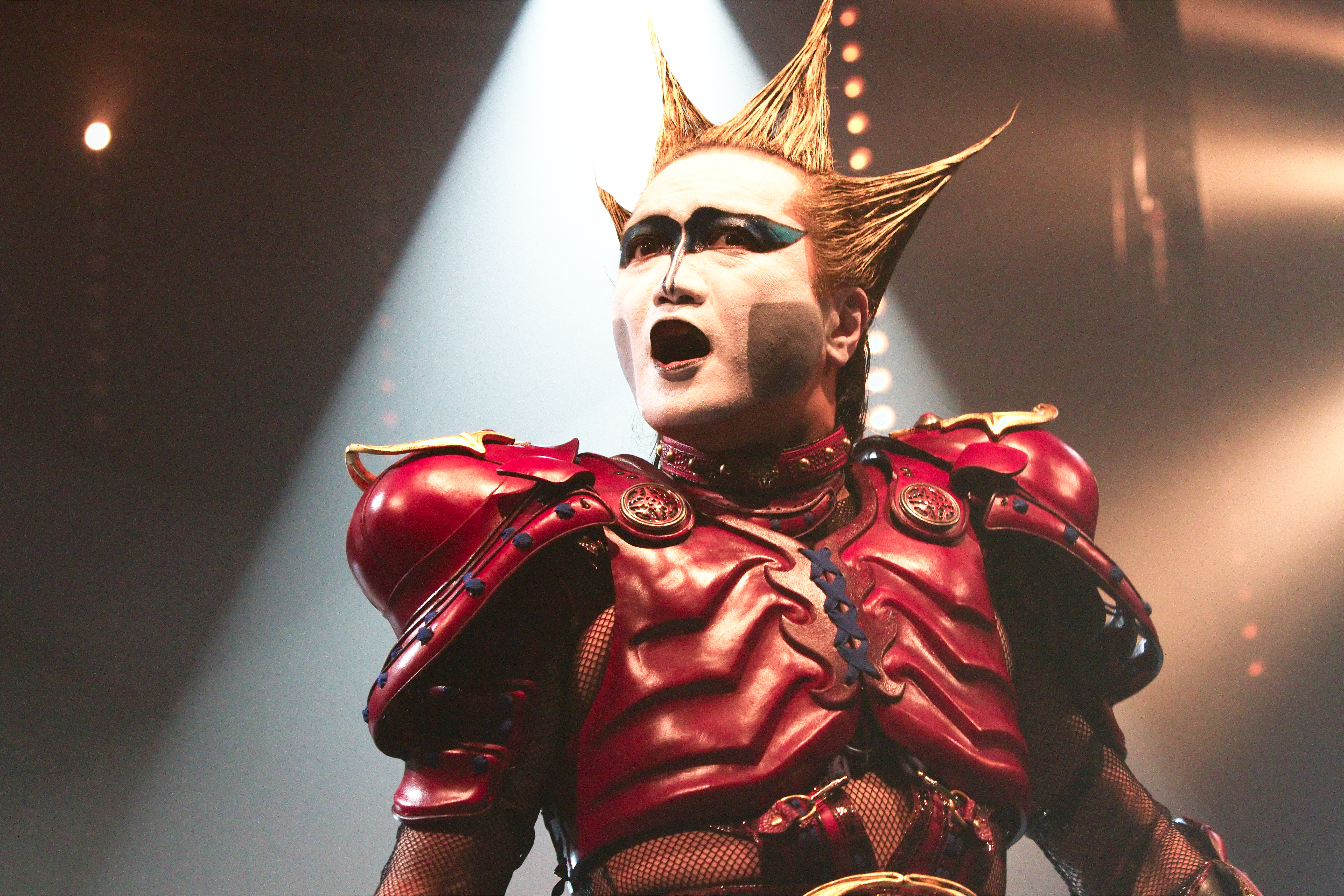 Seikima-II live at Japan Expo 2010 (Paris, France).